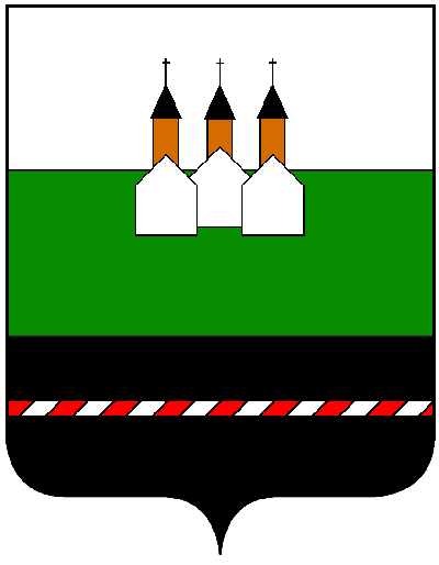 Coat of arms of the municipality of Barbian, South Tyrol.